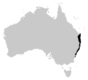 Distribution of the Freycinet's Frog (Litoria freycineti).